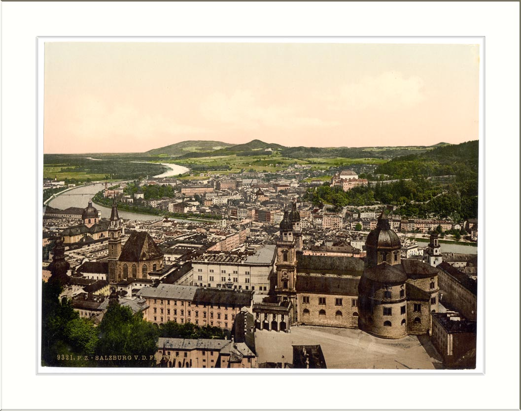 Salzburg, view from Hohensalzburg Castle on Mönchsberg, Austro-Hungary (Notice: wrong title of file)